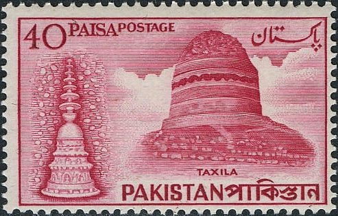 40 piasa Taxila stupa stamp from the Archaeological Series